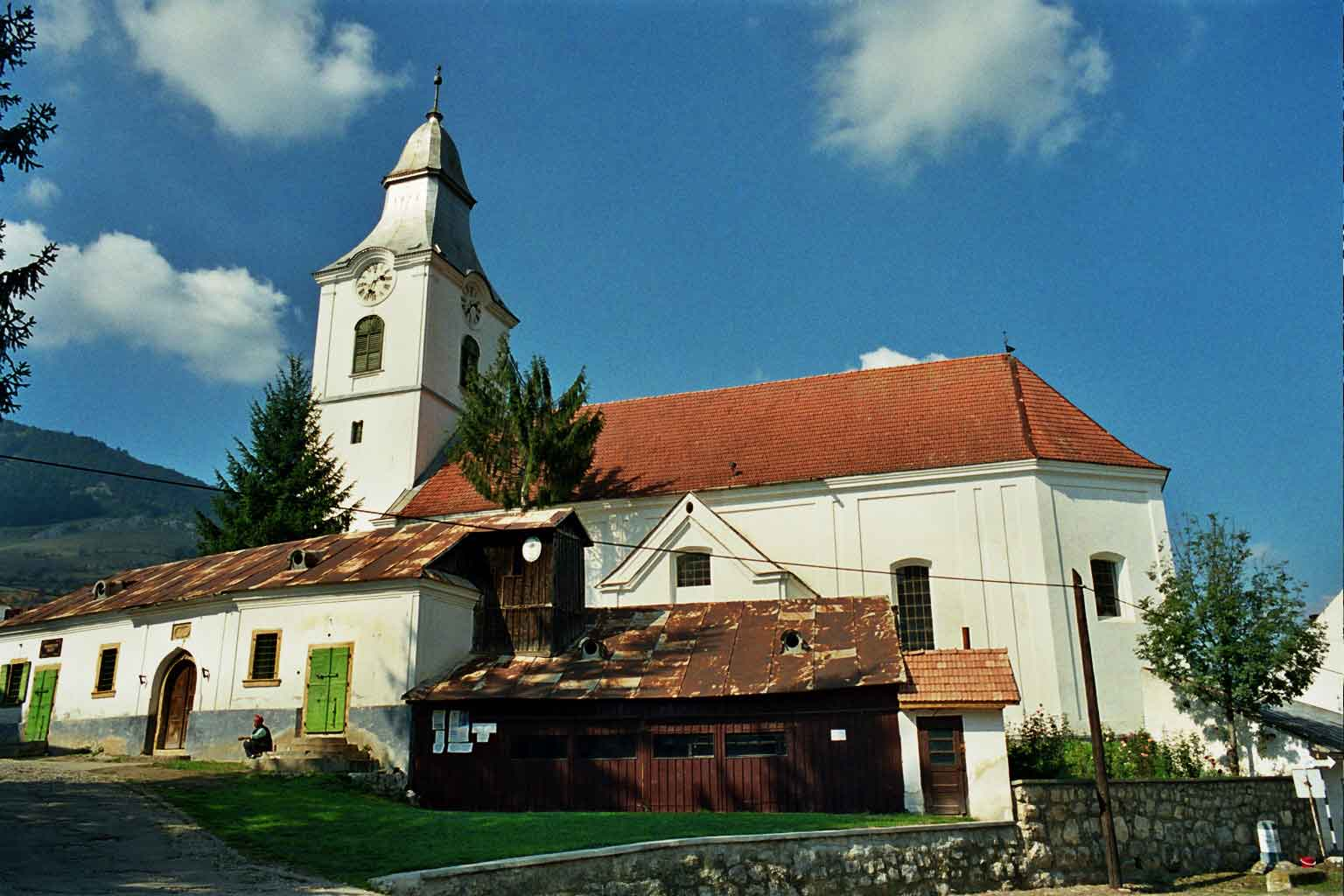 Rimetea town, Transylvania, Romania